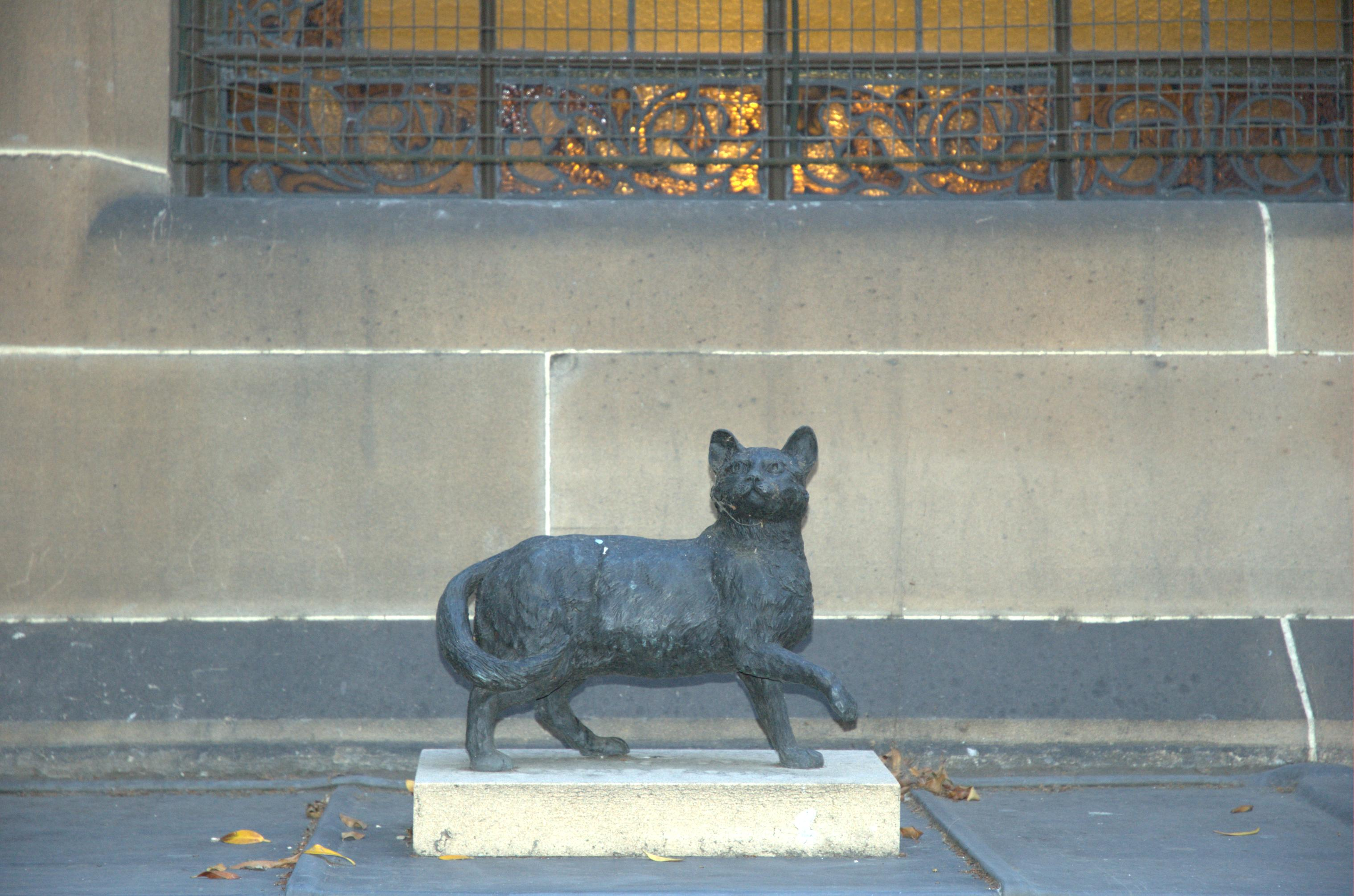 Statue of Matthew Flinders' cat Trim now stands behind Matthew's own statue in Sydney. Picture taken in December, 2005. пан Бостон-Київський 06:46, 25 January 2006 (UTC)